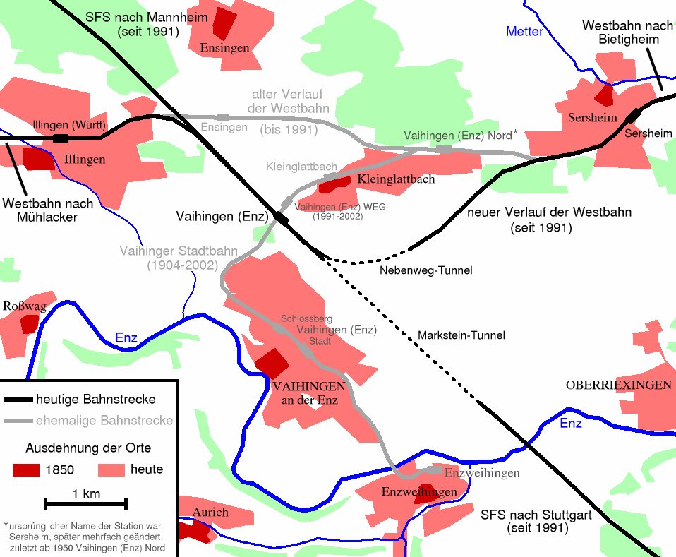 Map of railways near Vaihingen an der Enz, Germany